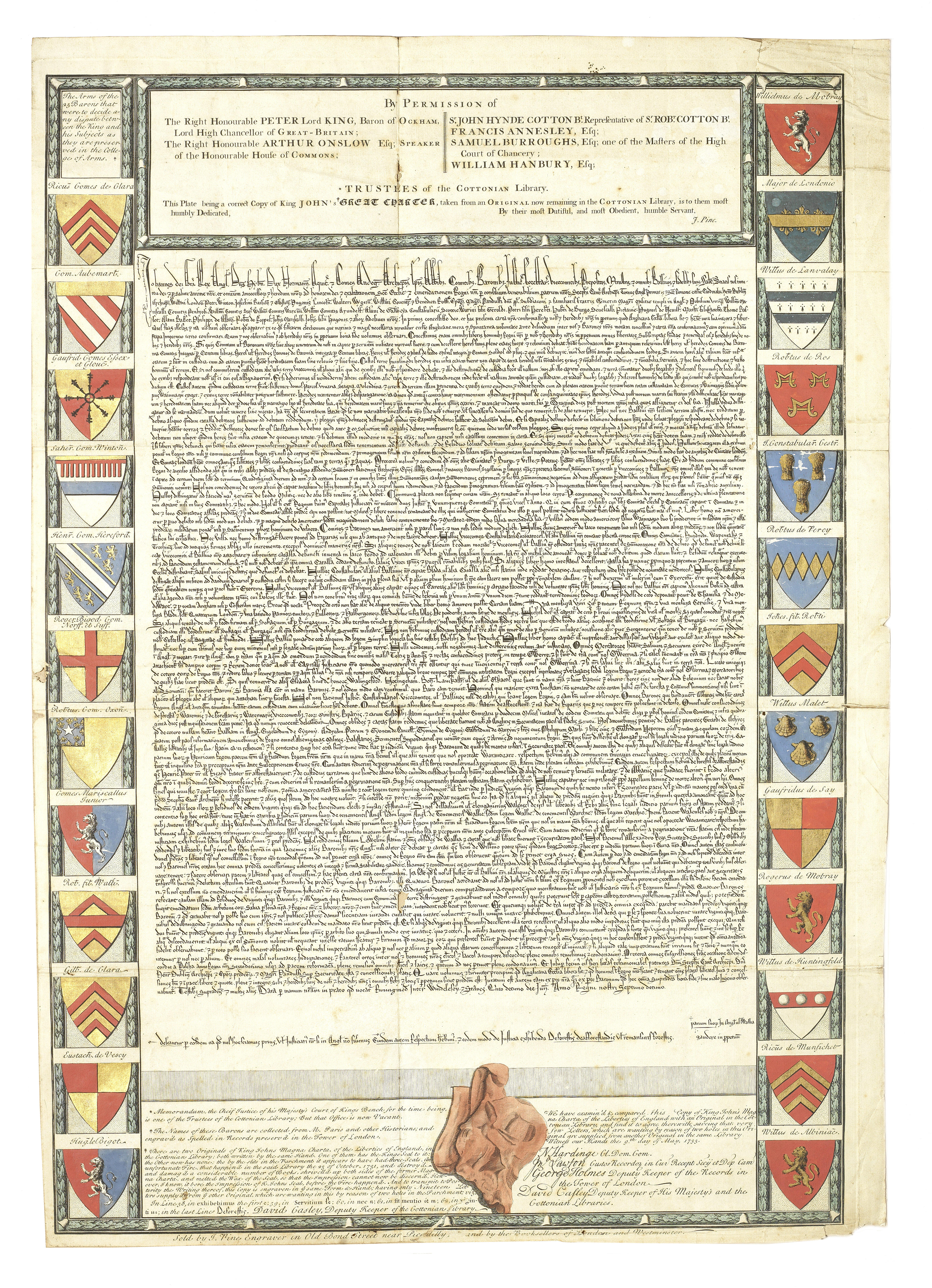 Engraved facsimile of the original text of the Magna Carta, surrounded by a series of 25 coats of hand-coloured arms of the Barons, panel at foot containing notes and a represenation (hand-coloured) of the remains of King John's Great Seal, all panels surrounded by oak leaf and acorn borders.